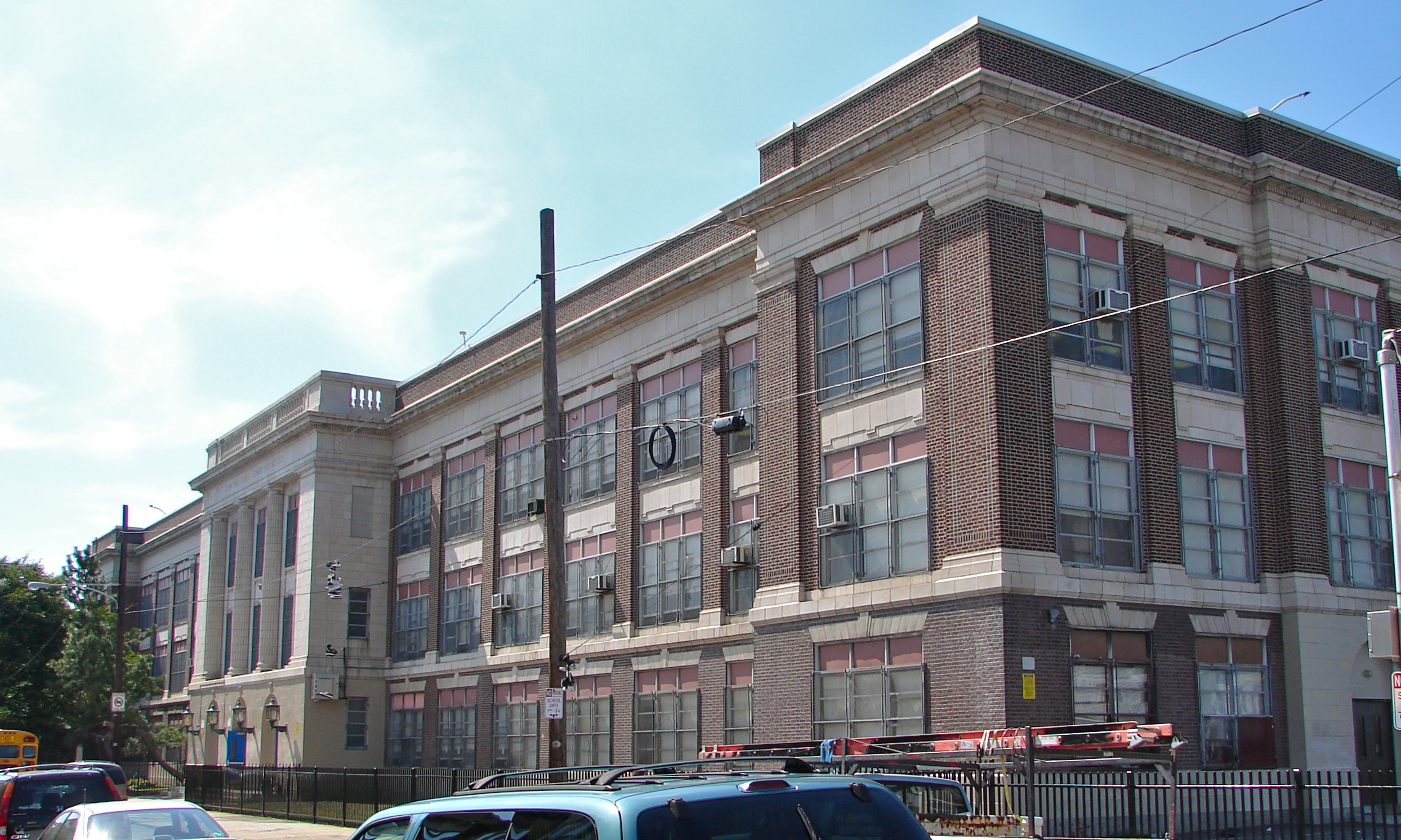 Memphis Street Academy Charter School at J.P. Jones in Philadelphia on the NRHP since November 18, 1988. At 2950 Memphis Street in the Richmond neighborhood of Northeast Philly.